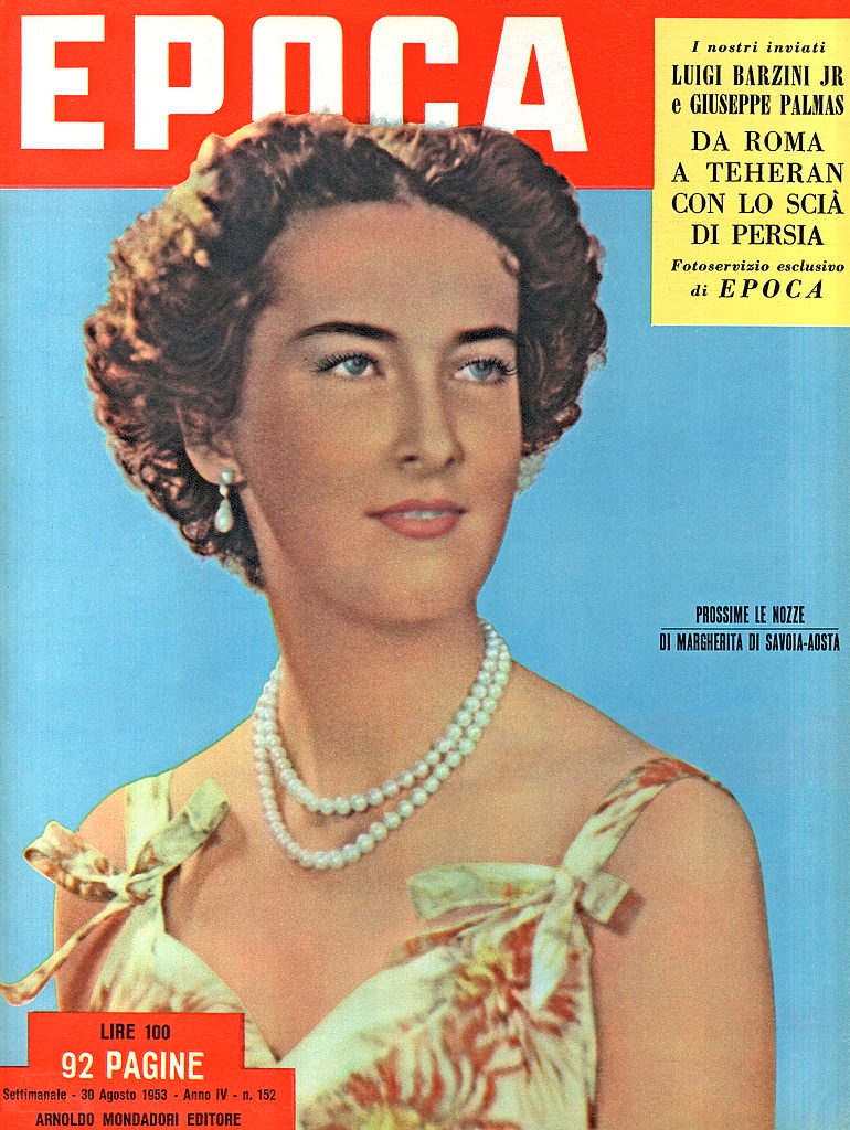 The cover of the weekly magazine Epoca showing the Italian princess Margherita of Savoy-Aosta. 30th August 1953